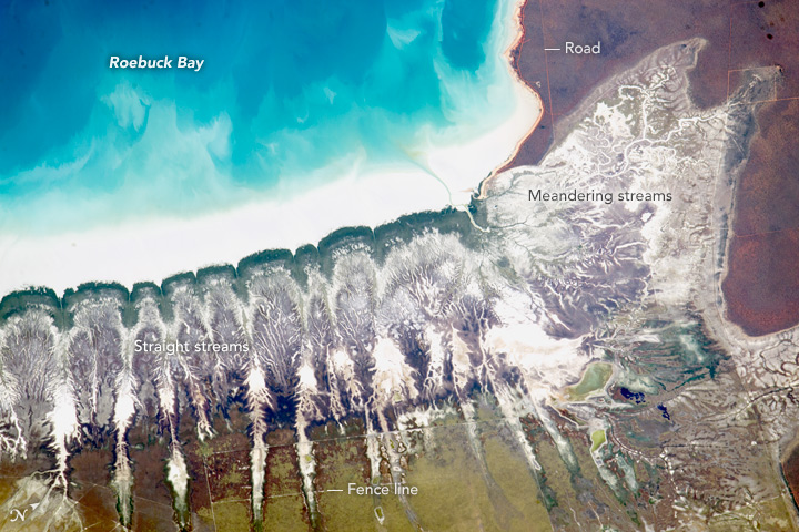 This photograph taken from the International Space Station shows striking shoreline patterns at Roebuck Bay, on the coast of the desert landscape of Western Australia. The indents along the shoreline (center and left) are points where small, straight streams reach the bay. Even smaller tributaries give a feathered appearance to this shoreline. By contrast, the more typical meandering channel patterns of coastal wetlands appear on the top right. Almost no human-built patterns are visible in the scene, even though the town of Broome lies just outside the image on the top right. The exceptions are the few fence lines crossing the straight streams in the bottom third of the image. The regularity of the stream pattern seems to have its origin in the surrounding inland areas. Several inland dunefields show the same pattern of parallel “linear dunes.” Interestingly, the dunes are spaced roughly the same distance apart as the parcels of land between the straight streams at the coast. Both the dunes and the straight streams are aligned with the dominant winds out of the east. (Note that north is to the upper right.) It seems likely that dunes once occupied the bay shore and may have controlled the spacing and linearity on the straight streams. The phenomenon of streams forming in the parallel lows between linear dunes is well known in desert landscapes. In all, this photograph shows about fifteen kilometers (10 miles) of coastline along Roebuck Bay. The bay also can be spotted in the lower left corner of this panoramic view taken from the Space Station on an earlier mission.